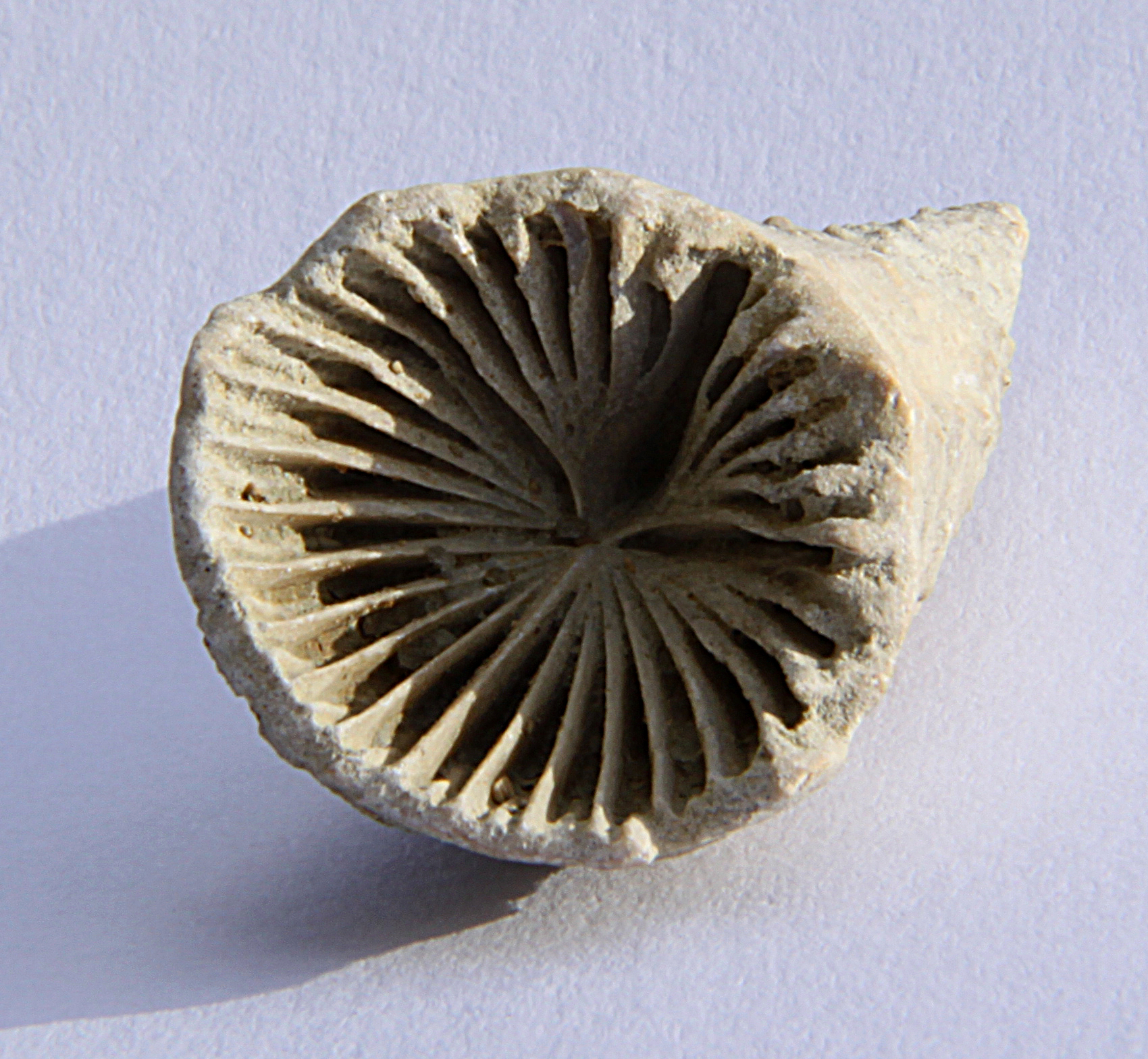 A horncoral, 38mm long, apical view, collected at the Bangor Limestone Formation in northern Alabama, USA, from the late Lower Carboniferous (Pennsylvanian, Visean)